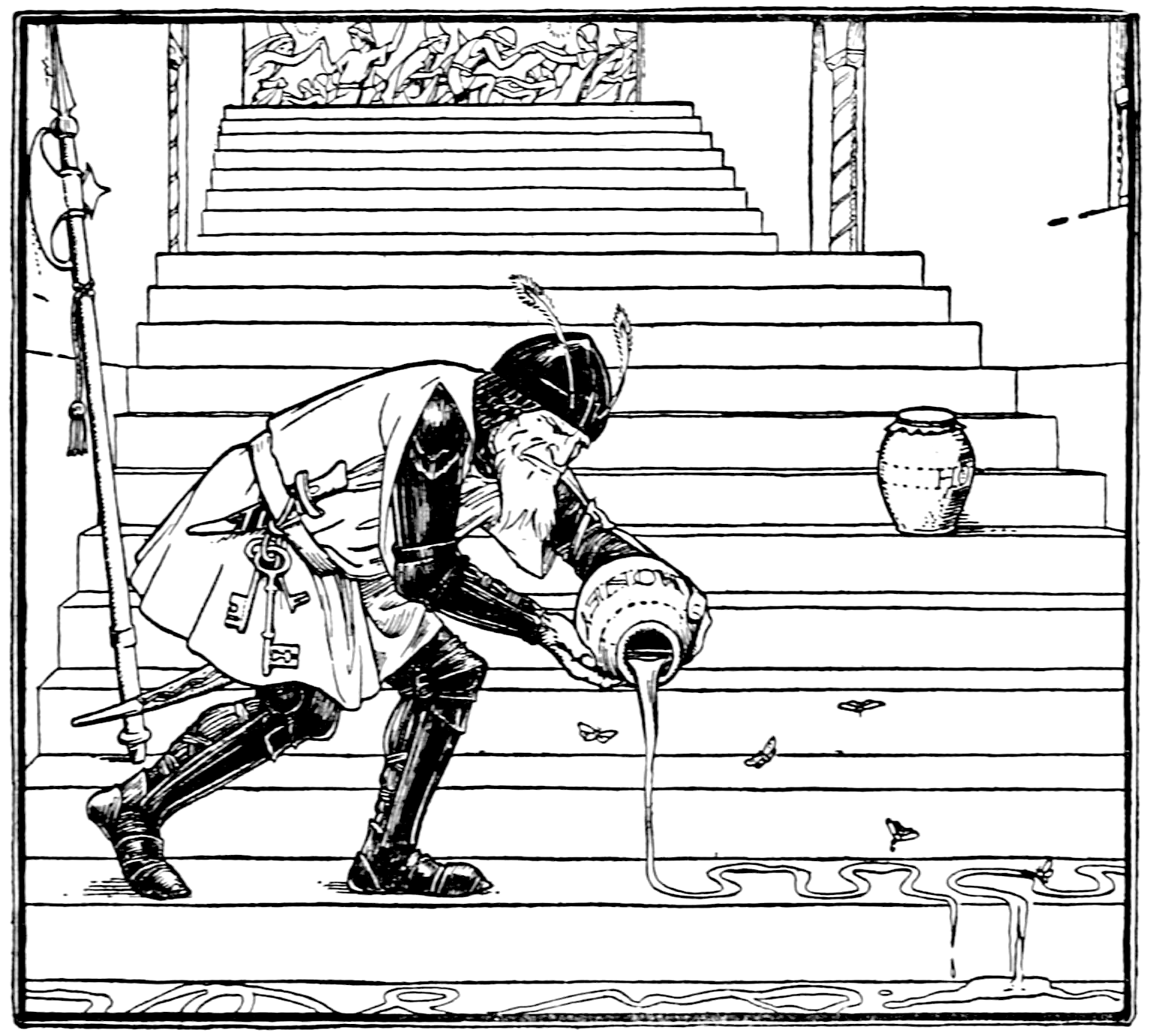 Illustration from a book of fairy tales from Europe, translated into english